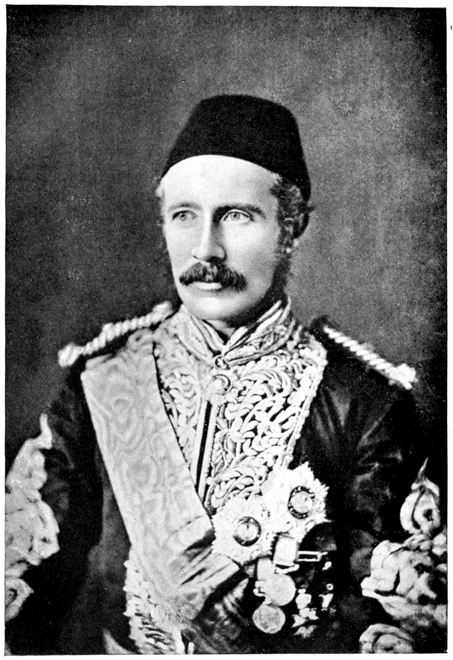 Photographic portrait of General Charles George Gordon.